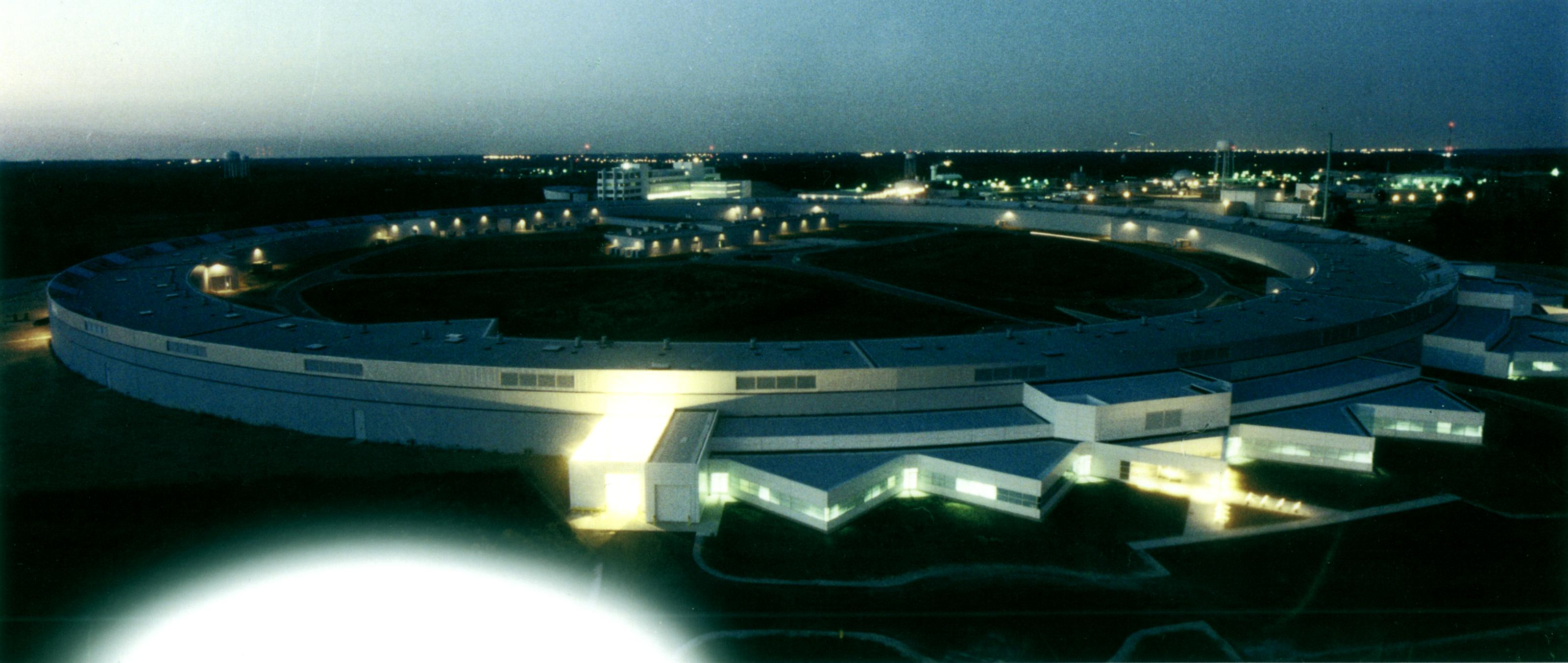 ARGONNE NATIONAL LABORATORY'S ADVANCED PHOTON SOURCE. ARGONNE'S ADVANCED PHOTON SOURCE PROVIDES THE WORLD'S MOST BRILLIANT X-RAY BEAMS FOR MATERIALS RESEARCH. THE APS SUPPORTS THOUSANDS OF EXPERIMENTS BY INDUSTRY, UNIVERSITY AND GOVERNMENT RESEARCHERS, PROVIDING THE SCIENTIFIC COMMUNITY WITH UNIQUE INSIGHT INTO THE PROCESSES OF NATURE, AS WELL AS LEADING INDUSTRY TO NEW TECHNOLOGIES. For more information or additional images, please contact 202-586-5251.